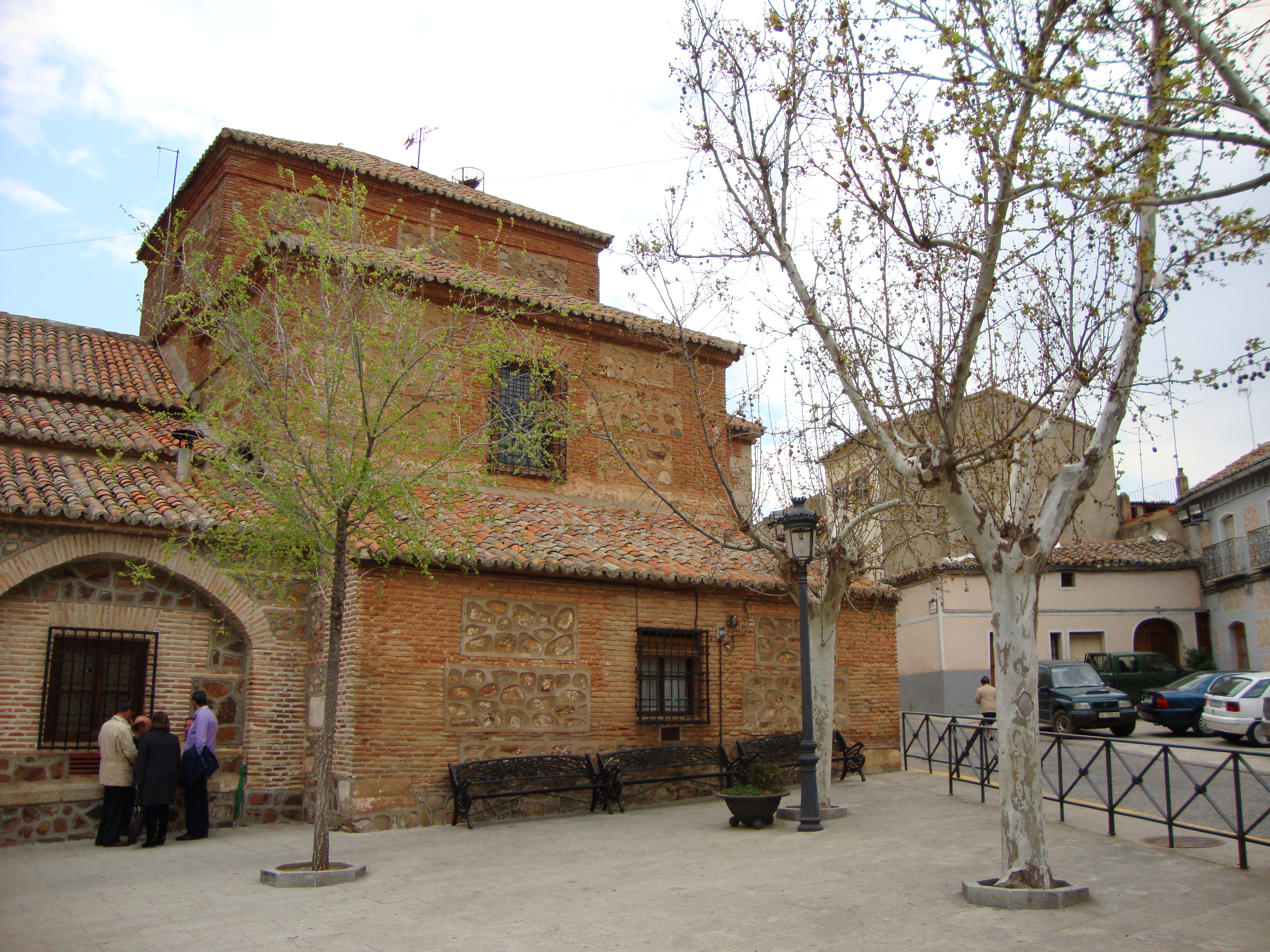 Los Navalucillos, town in Spain near Talavera de la Reina